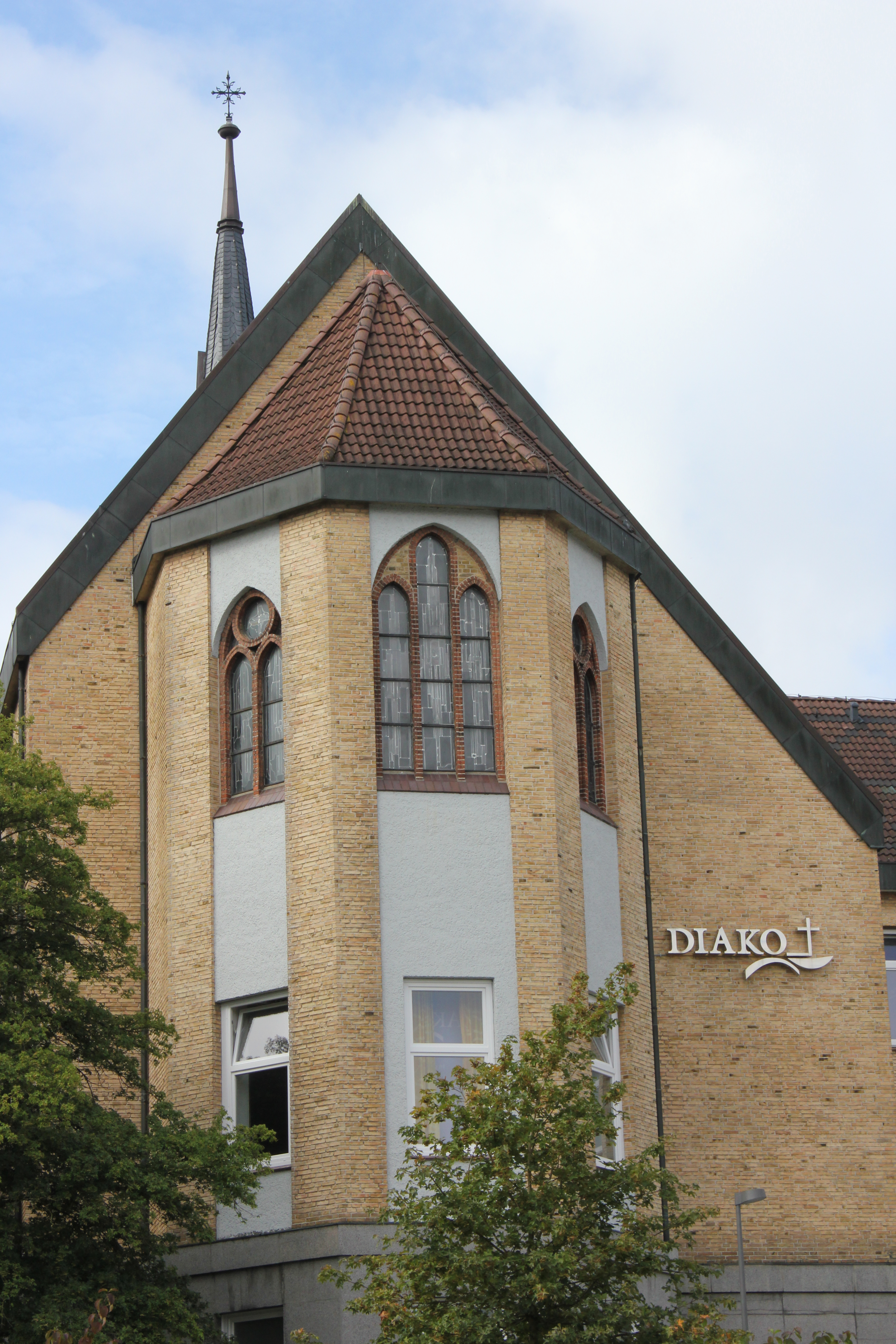 DIAKO-Kirche (Flensburg)